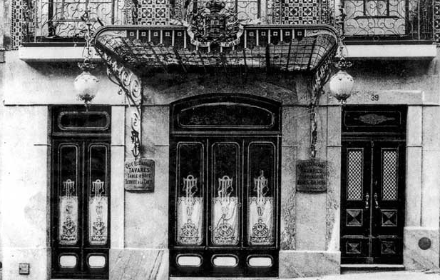 The Tavares Restaurant, in Lisbon, most likely before 1903 (date of the renovation under Hermógenes dos Reis) -- certainly before 1910 (given the royal crest on the porch).